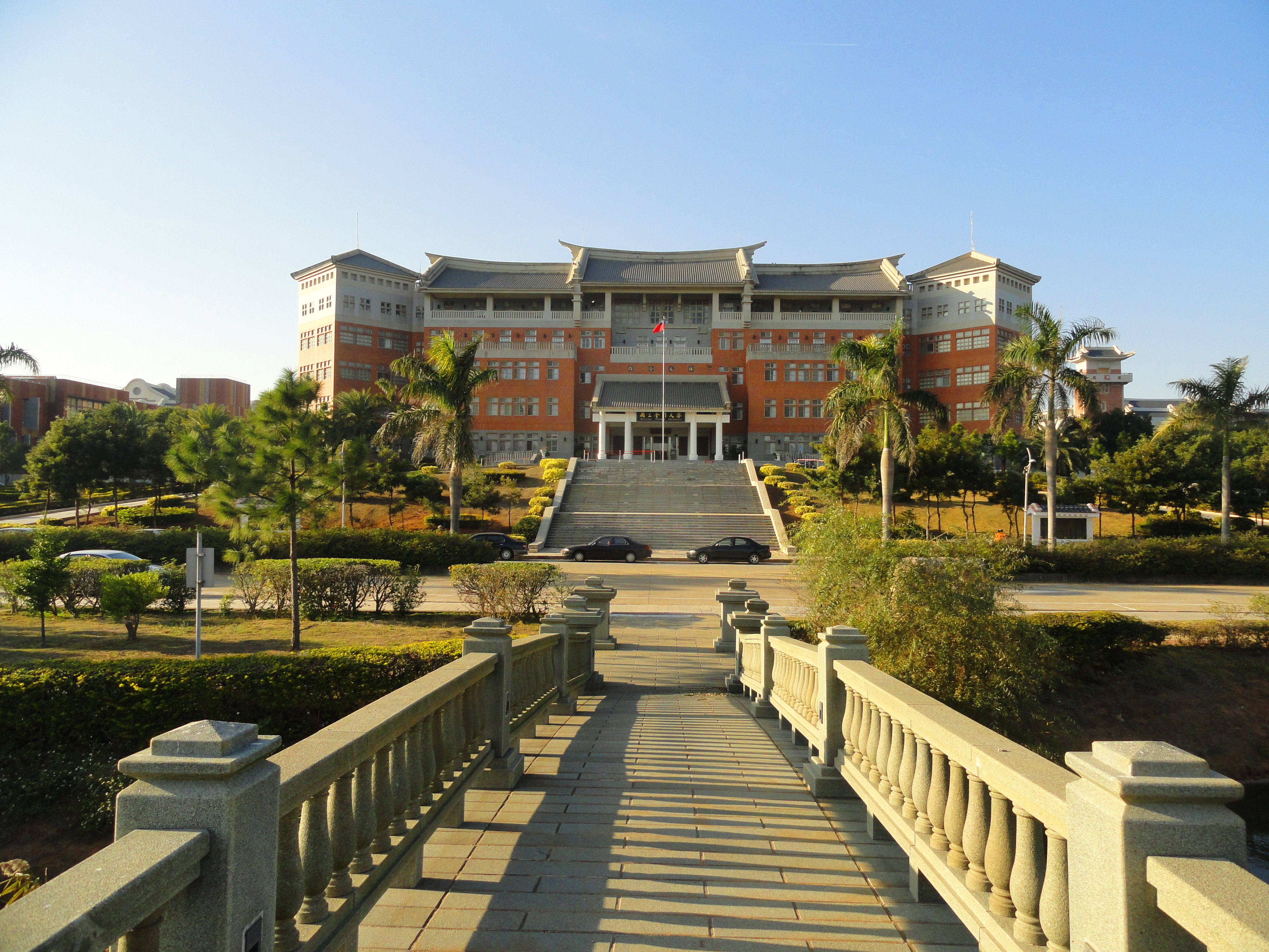 National Quemoy University中文（中国大陆）: 国立金门大学综合教学大楼正面